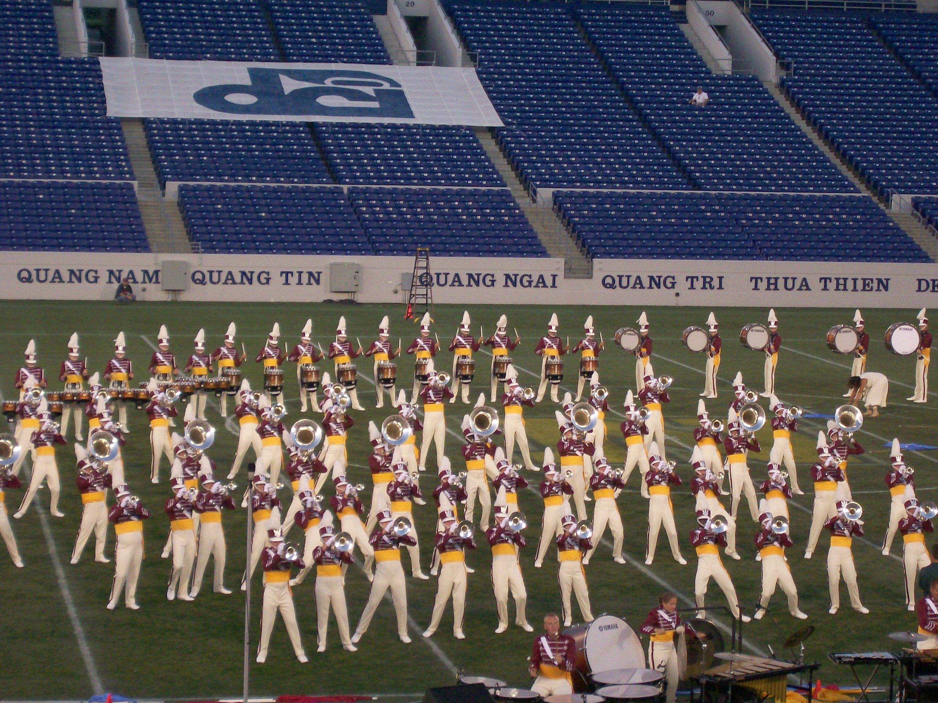 The Cadets performing in Annapolis, MD on June 16, 2007